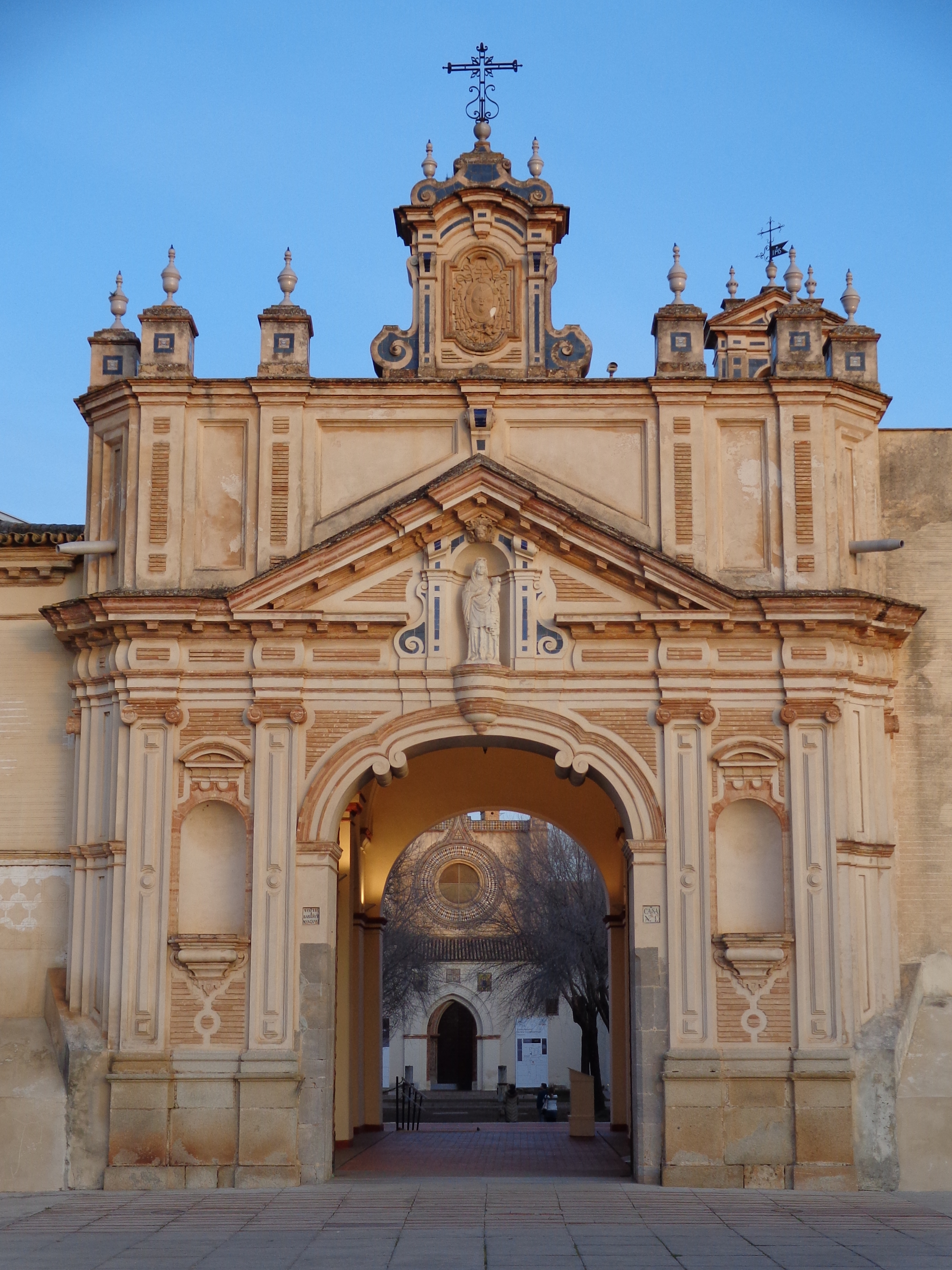 Cartuja de Sevilla